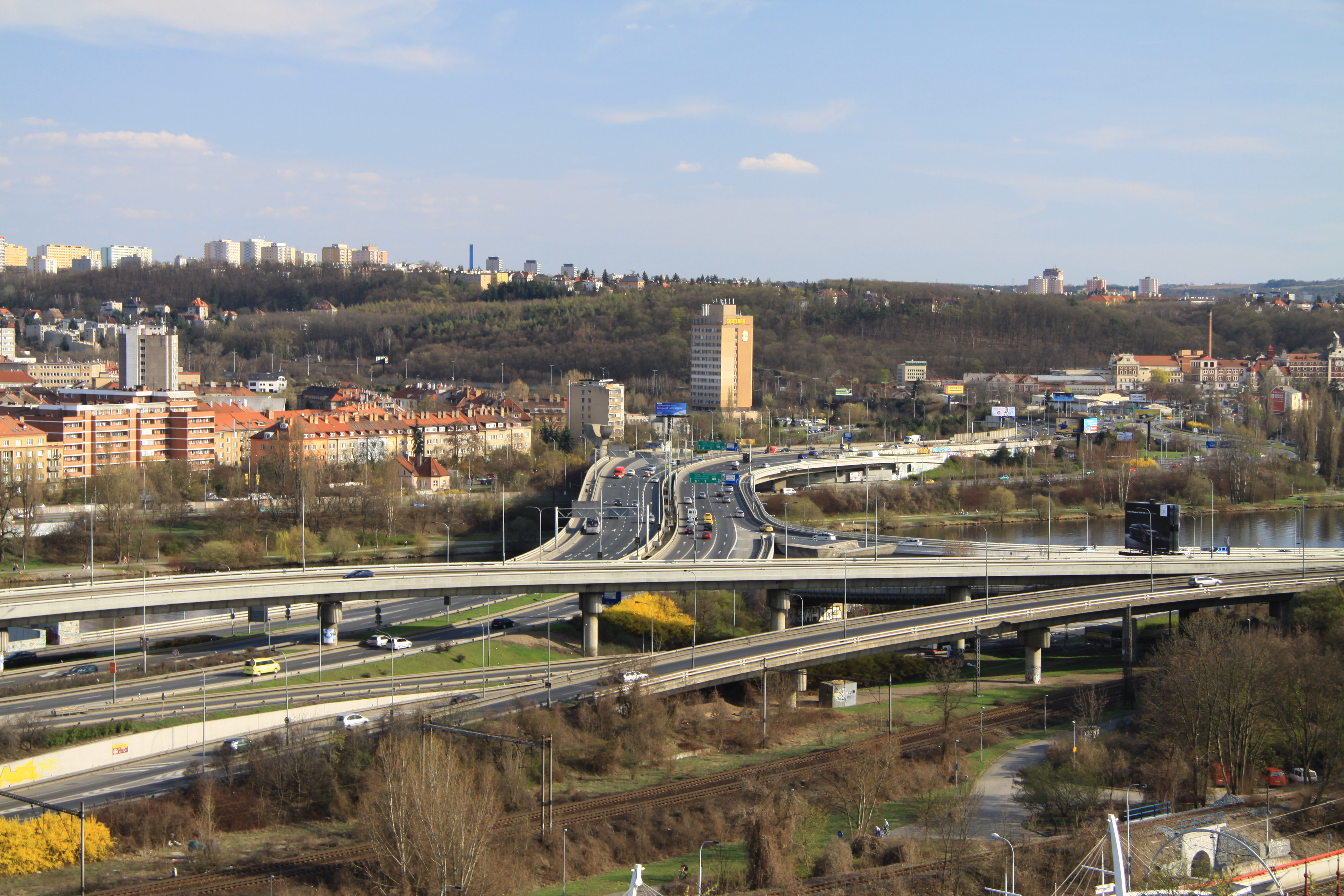 Barrandovský bridge from Hlubočepy, Prague, Czech Republic